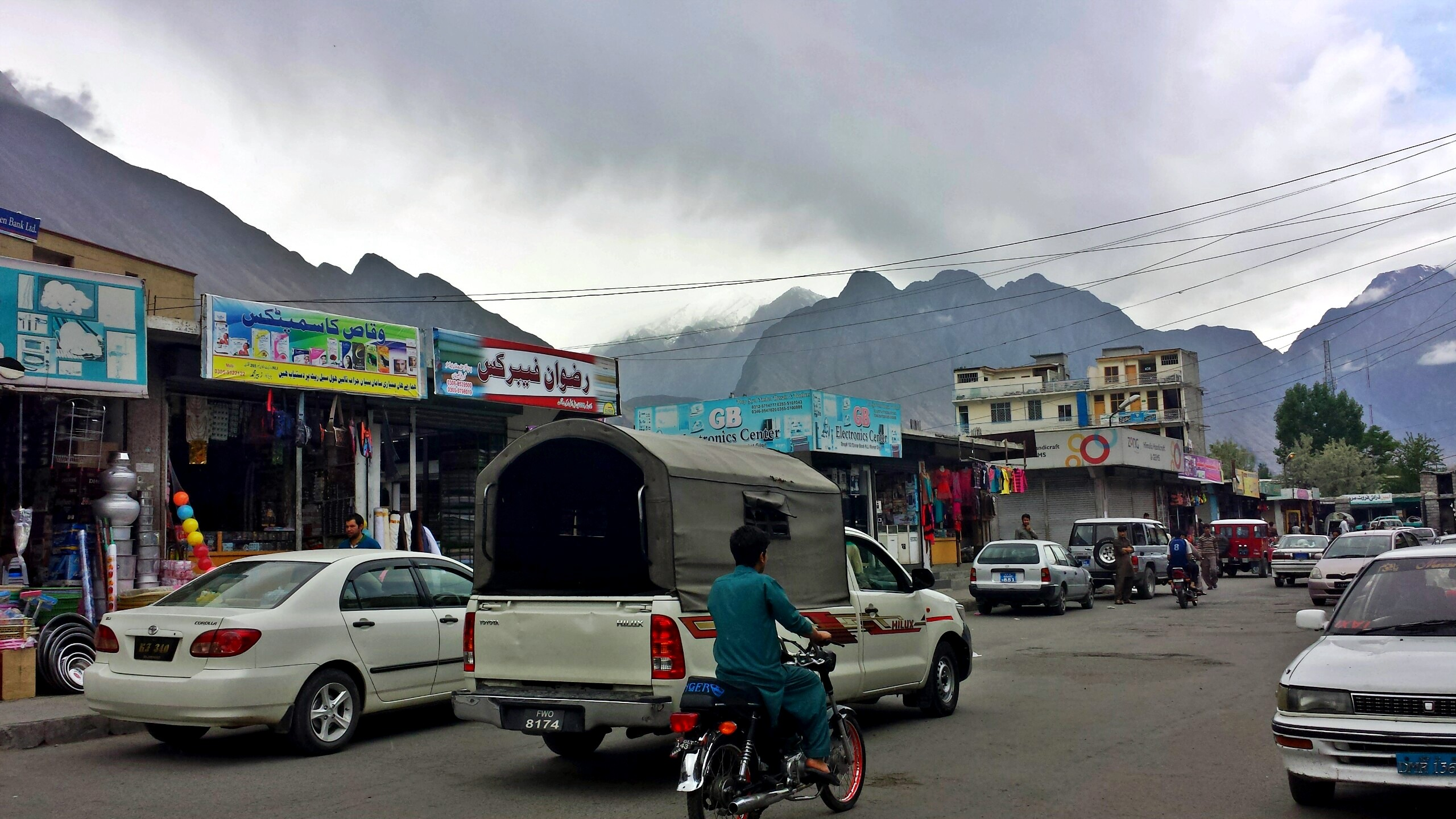 the busy NLI market in gilgit city